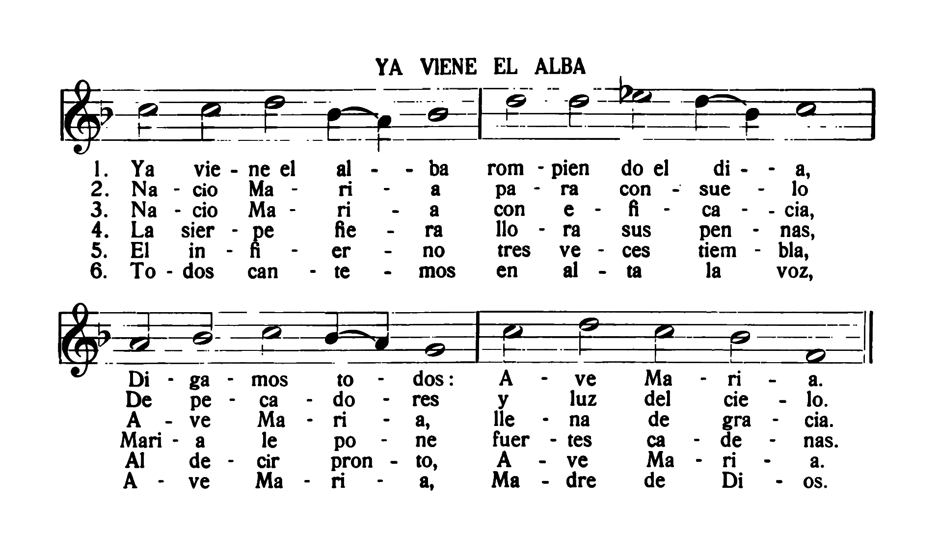 A traditional Spanish Morning Hymn, "Ya Viena El Alba" ("The Dawn Already Comes"). Taken from p. 30 of San Juan Capistrano Mission by Engelhardt, Zephyrin (1922).